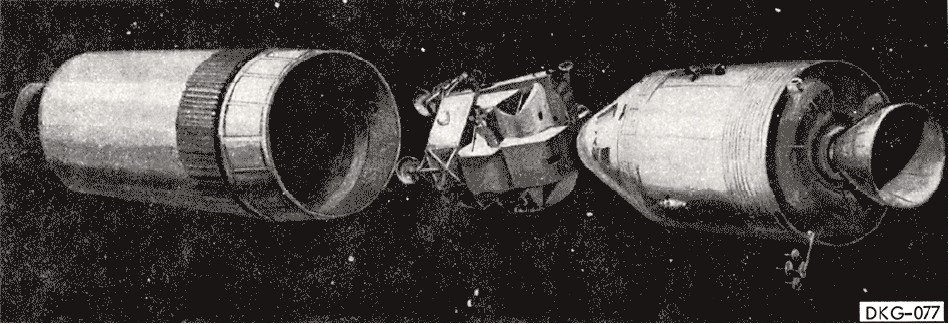 Command Service Module and S-IVB stage separation